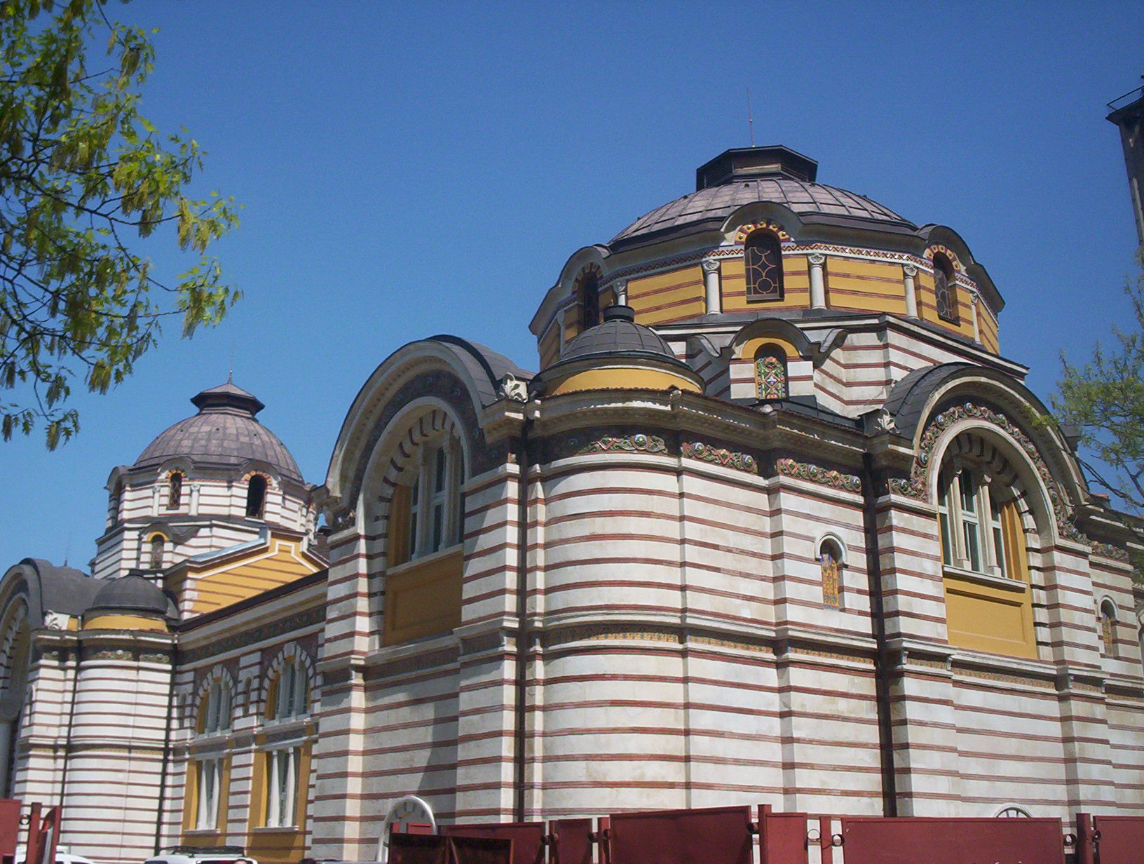 Sofia Public Mineral Baths, opened in 1913.